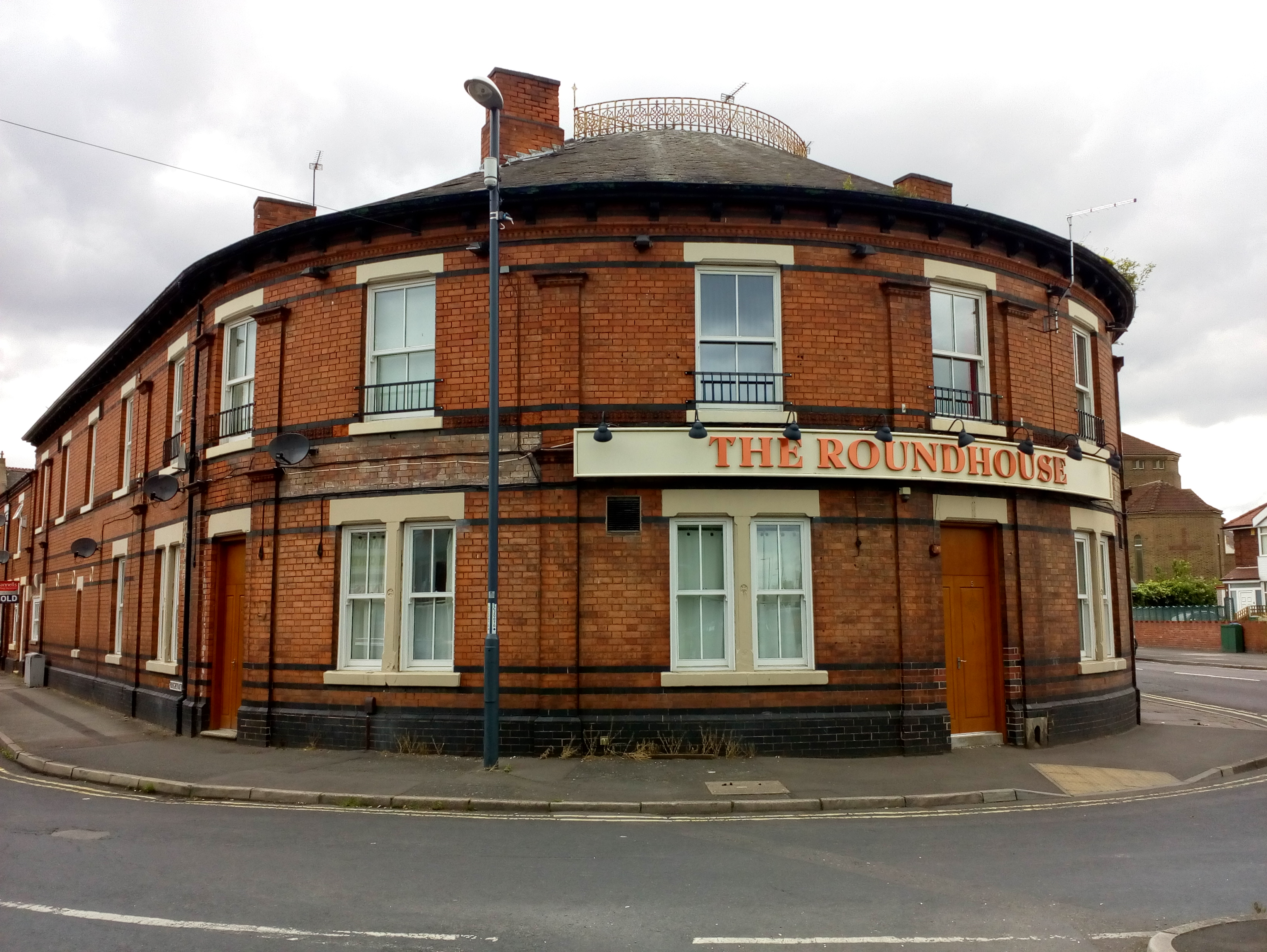 off London Road in Alvaston Derby in June 2017